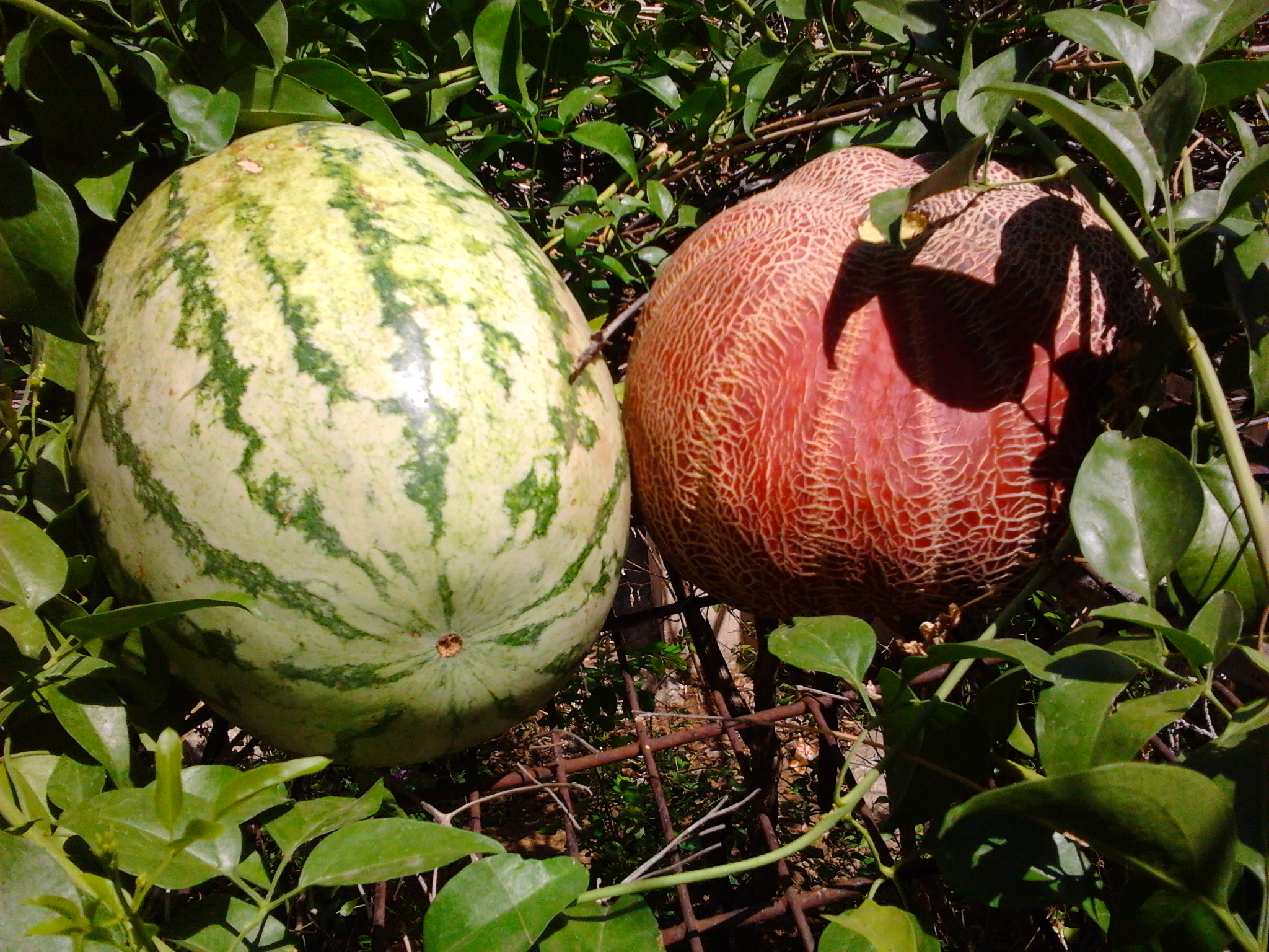 Photoed using Samsung Wave 525.